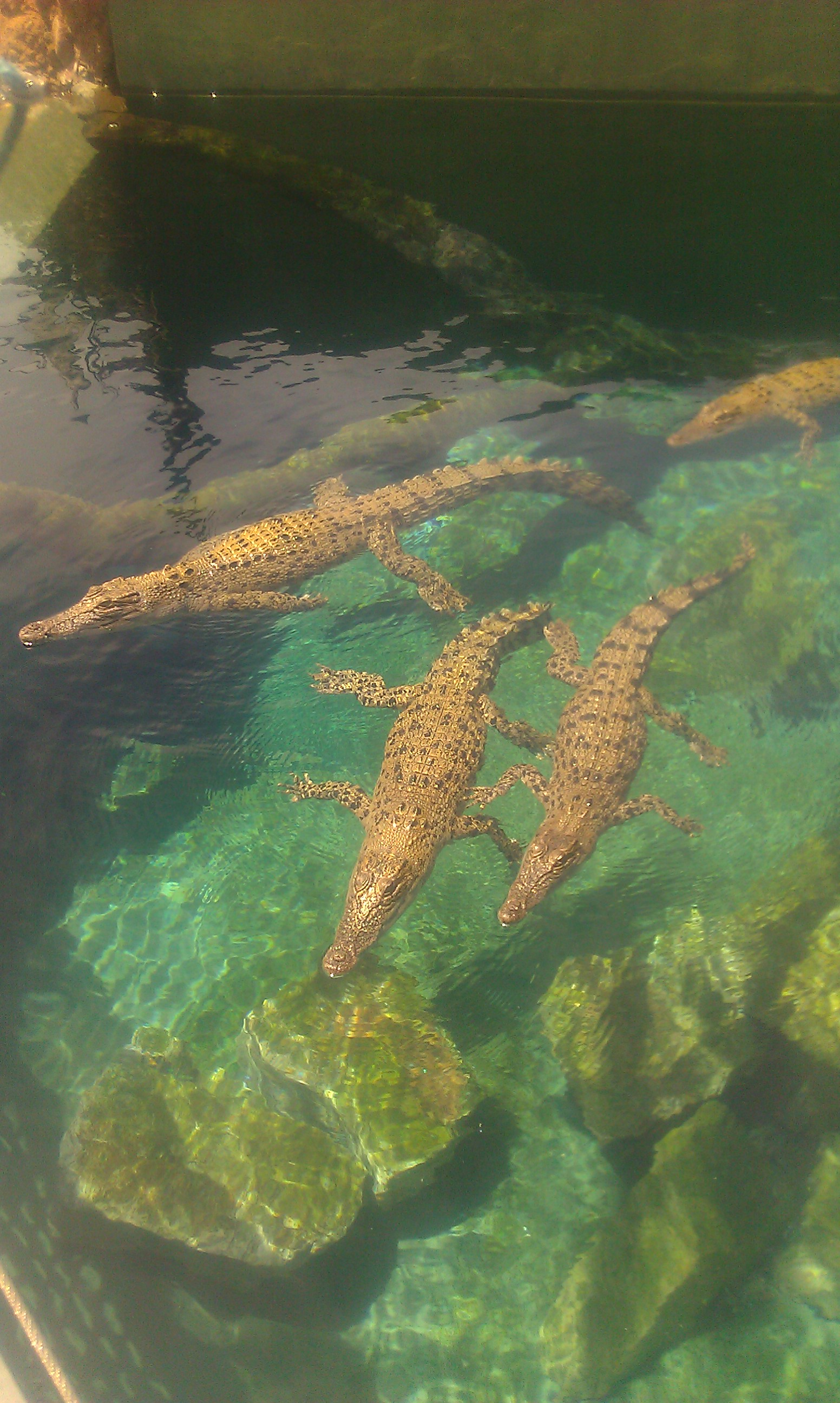 young saltwater crocodiles at 'Crocosaurus Cove' in Darwin, NT, Australia in March 2012